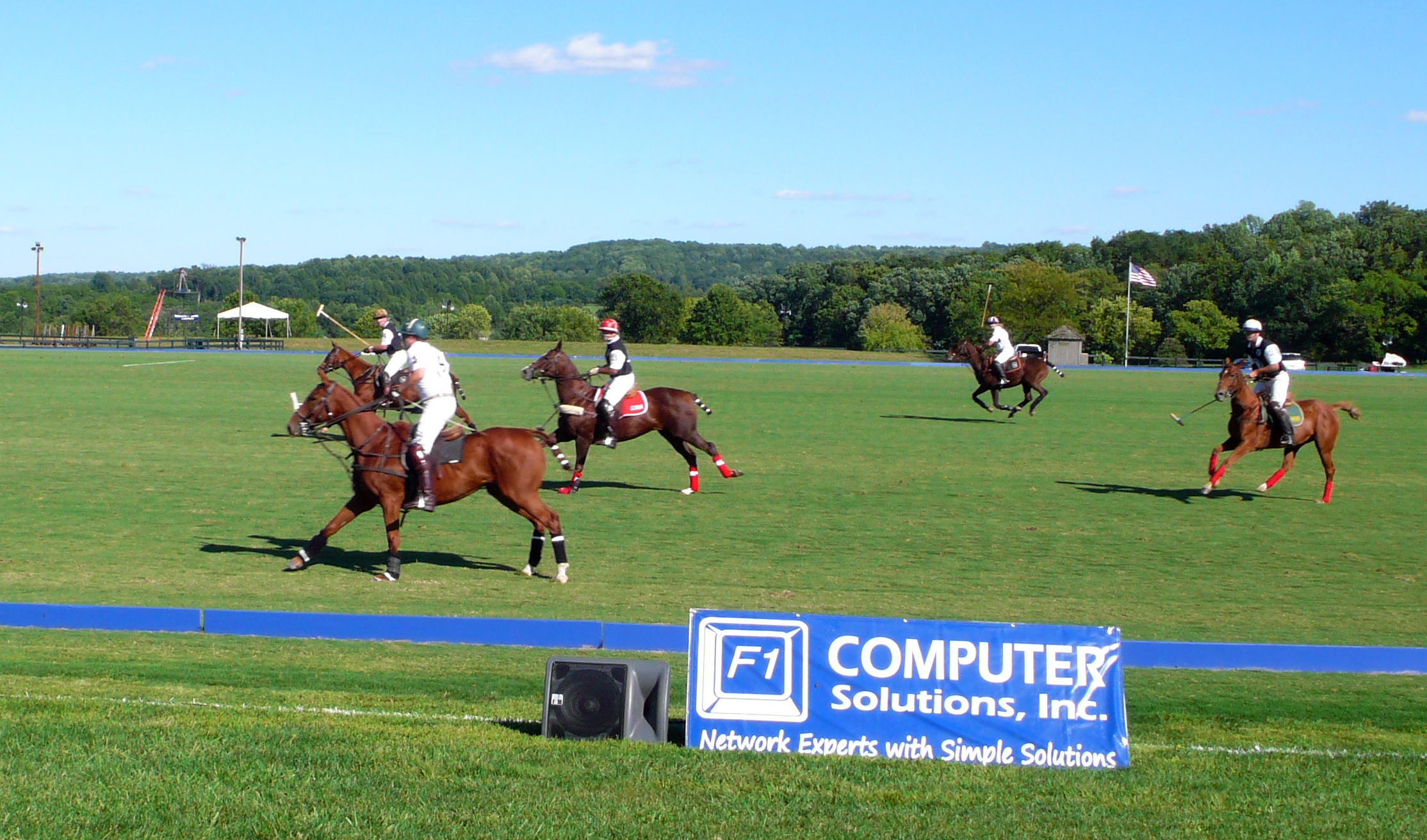 Polo players race for the ball at Great Meadow in the city of The Plains, Virginia.